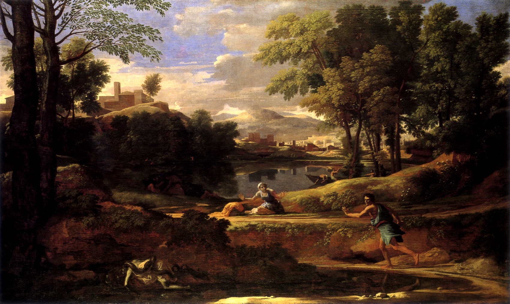 Painting in the National Gallery in London